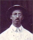 Medical doctor for ABCFM